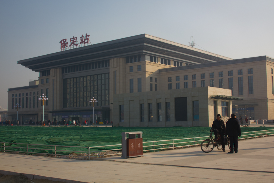 Baoding new railway station